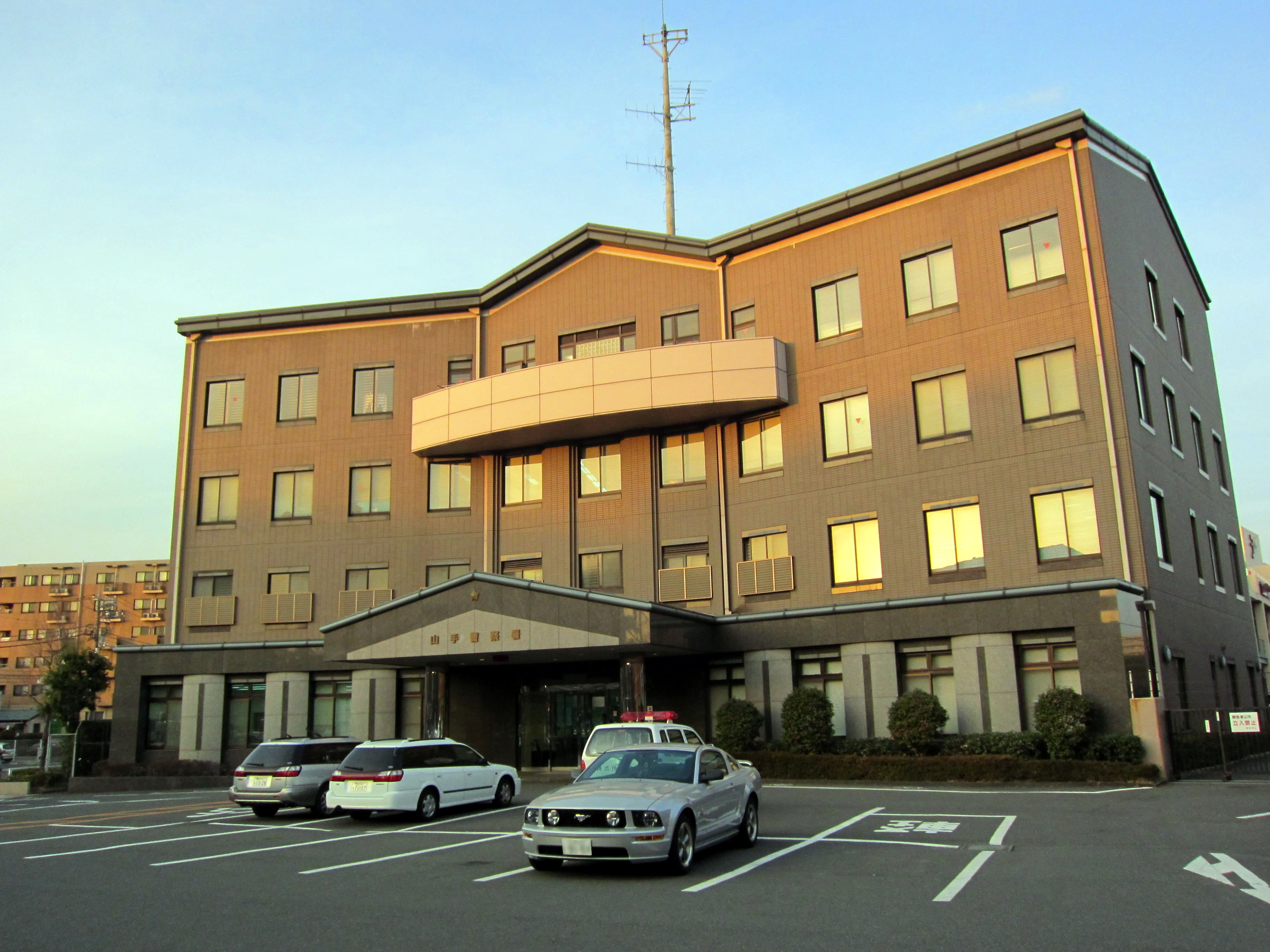 Yokohama Yamate Police Station